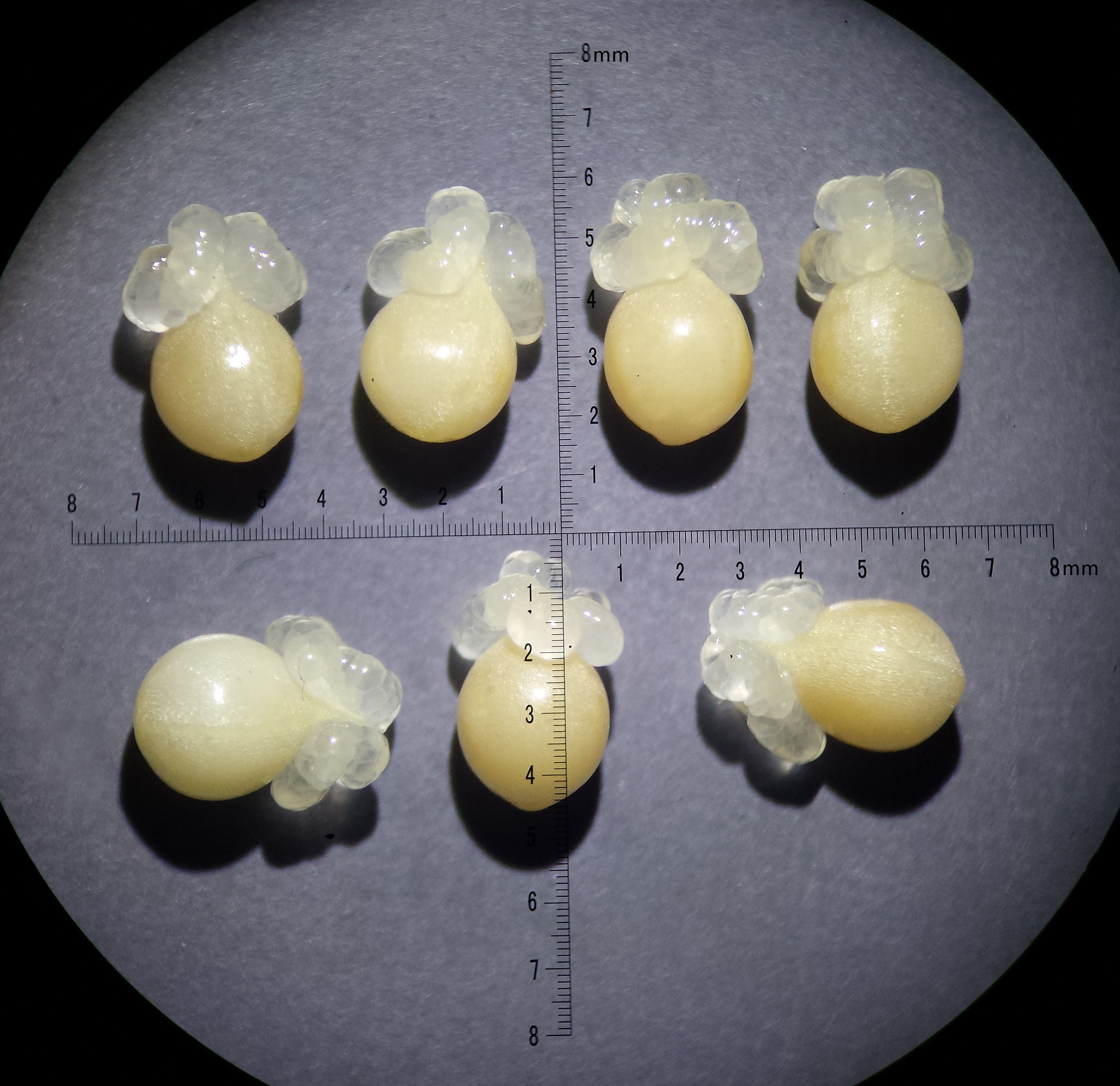 Seeds with elaiosome Taxonym: Scilla vindobonensis ss Fischer et al. EfÖLS 2008 ISBN 978-3-85474-187-9 Location: Rohrwald, district Korneuburg, Lower Austria - ca. 275 m a.s.l. Habitat: wet wood